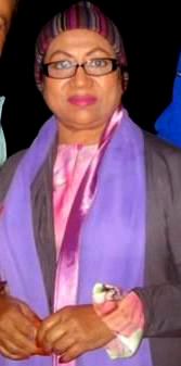 Suchanda Cox's Bazar in 2014